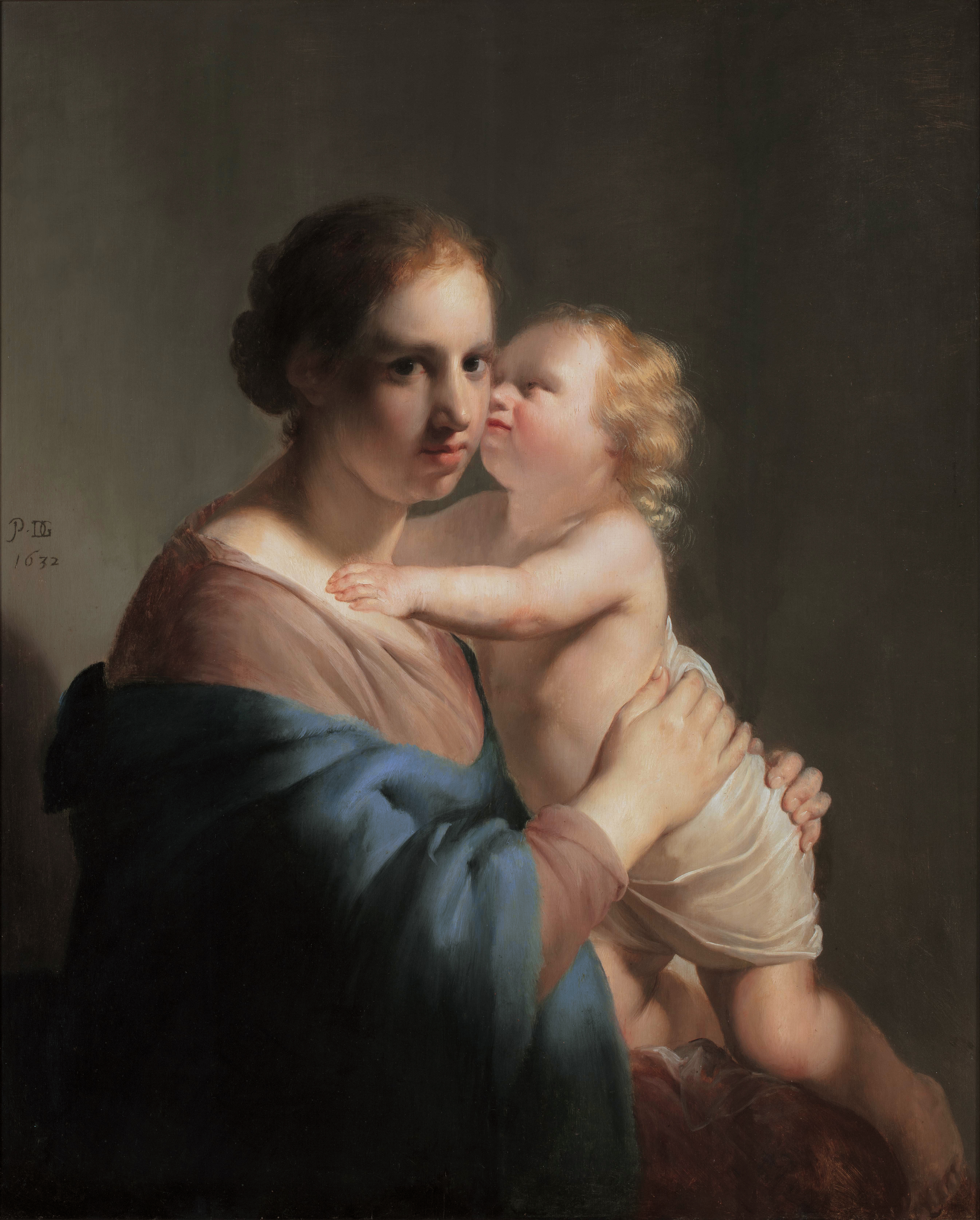 The Madonna with the Christ Child oil on panel 97 x 79,5 cm signed c.l.: P.DG / 1632